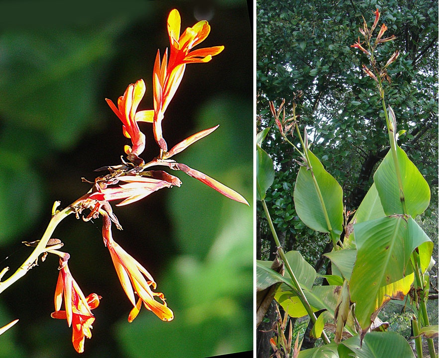 This species can reach 5 meters height in wetlands from southern Mexico to Ecuador. In context at